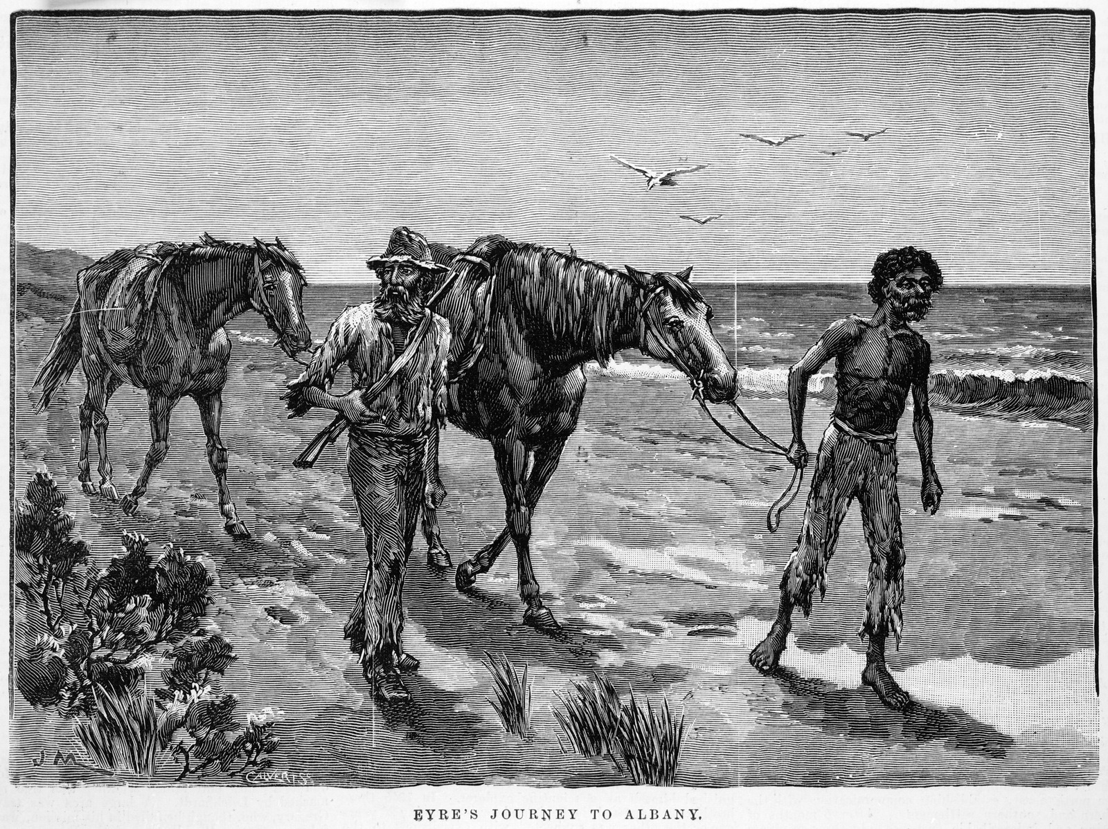 Eyre's journey to Albany, wood engraving